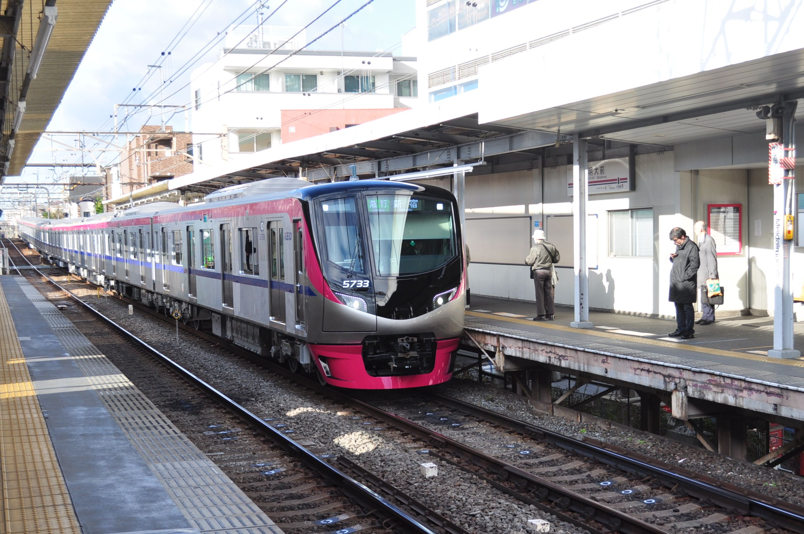 Keio 5000 series EMU set 5733 arriving at Meidamae Station on the Keio Line in Tokyo, Japan